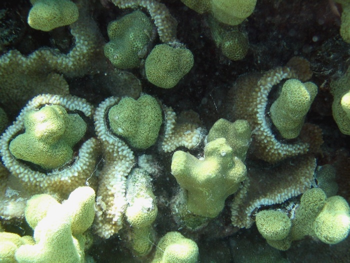 Rice coral (Montipora capitata) growing over Porites lobata. The rice corals will eventually grow over the porites.